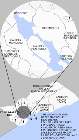 Halifax Regional Municipality map